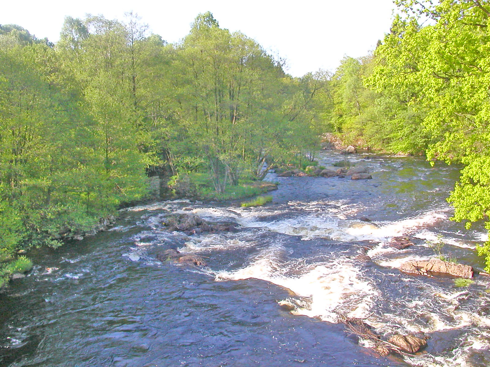 Photo of nature reserve Sumpafallen taken of a bridge at its northern border